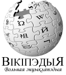 Logo of the Belarussian Wikipedia